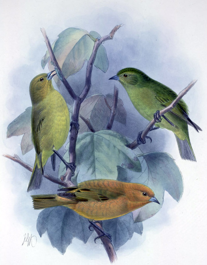 Maui Akepa (Loxops coccineus ochraceus) depiction by John Gerrard Keulemans from 'The Avifauna of Laysan and the neighbouring islands with a complete history to date of the birds of the Hawaiian possession.' by Walter Rothschild from the years 1893 to 1900